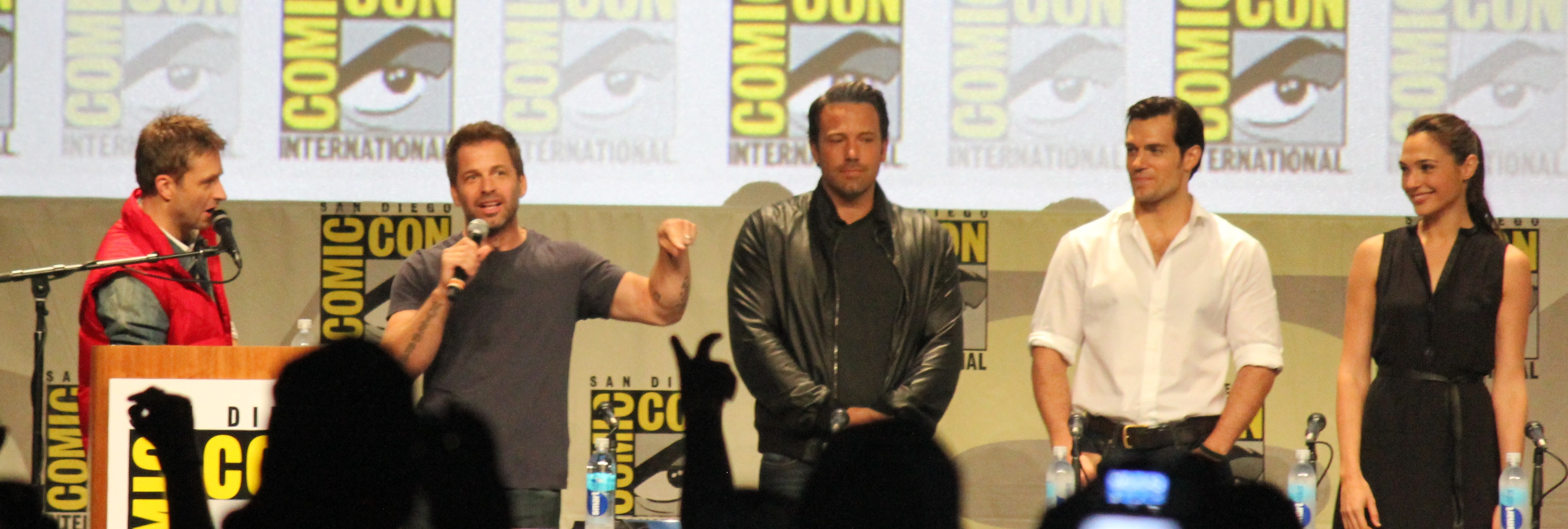 Superman vs Batman Panel